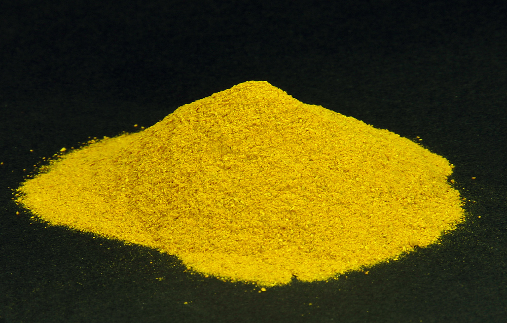 Turmeric powder